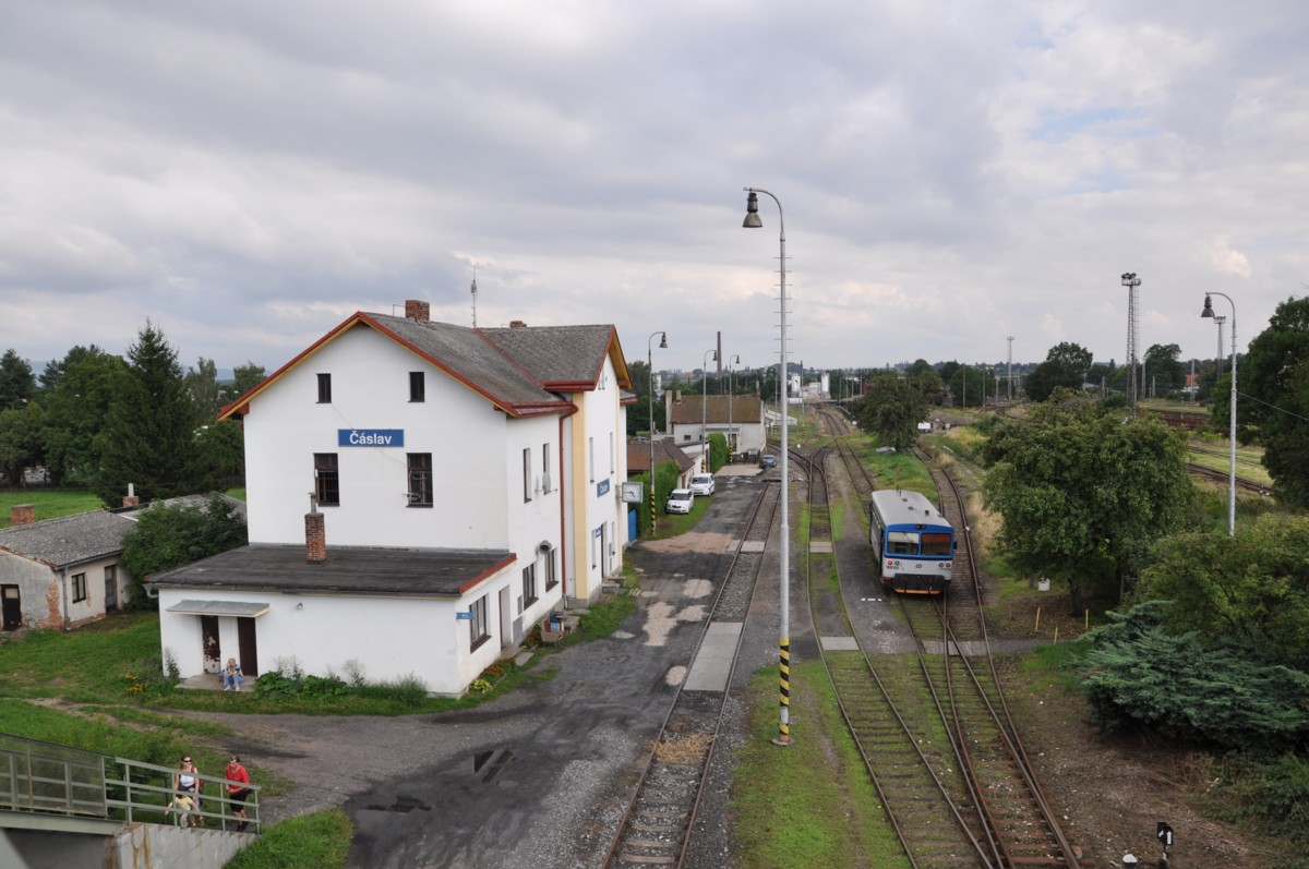 station Čáslav místní nádraží, Czech republic